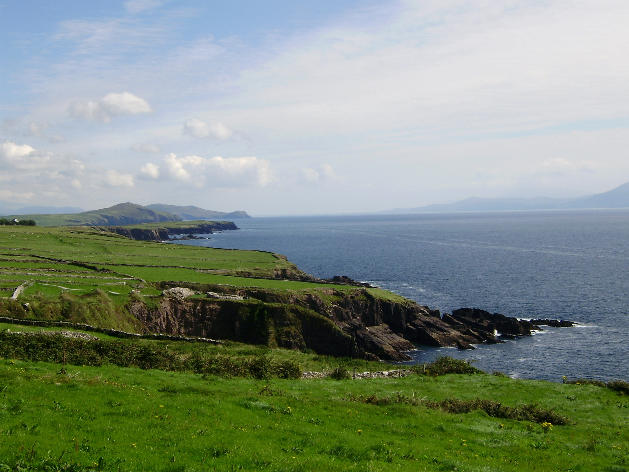 500px provided description: The coastline of Dingle peninsula, Ireland. [#coastline ,#ireland ,#dingle]